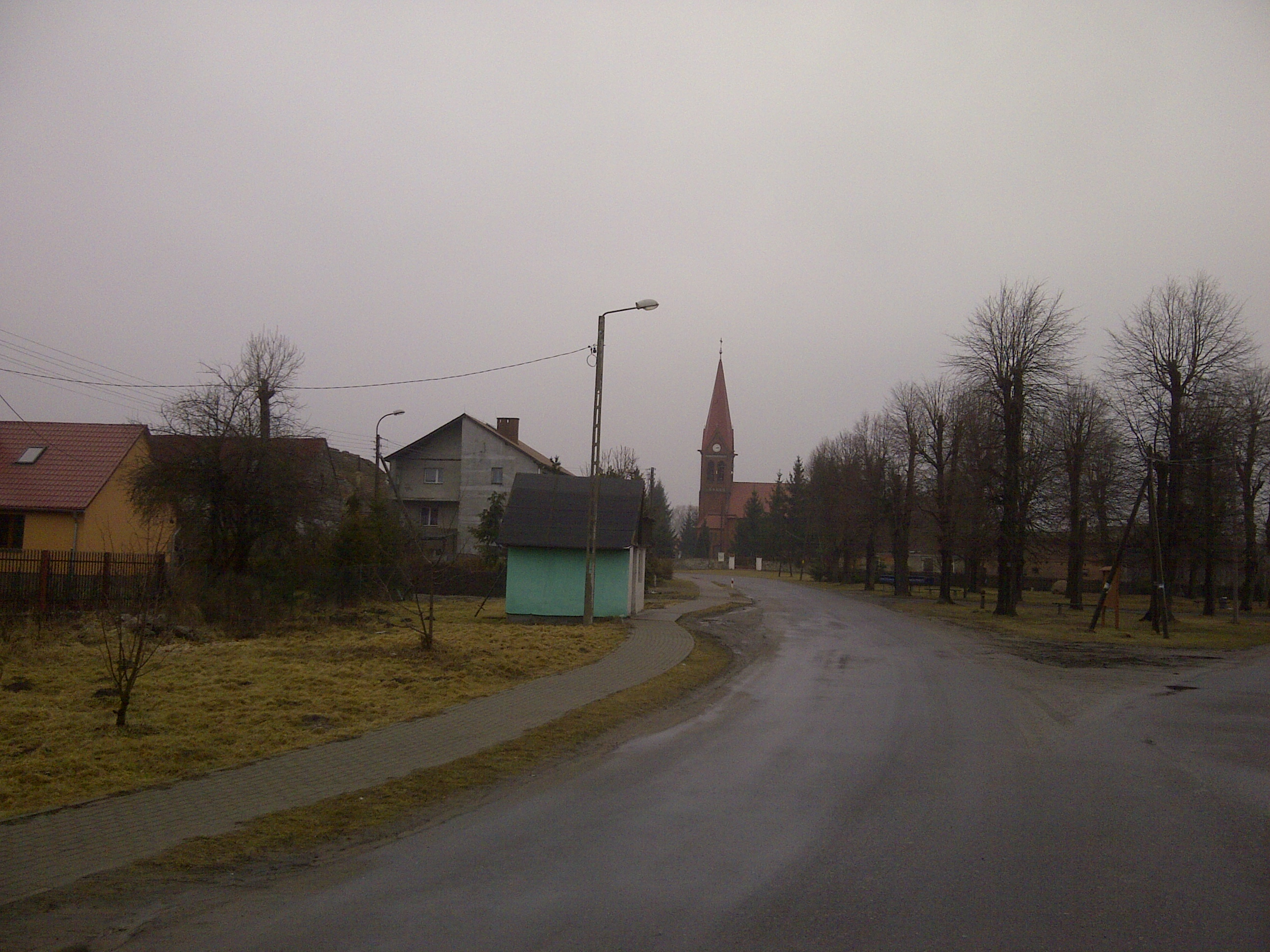 the centre of Lubiechnia Wielka, view from the south